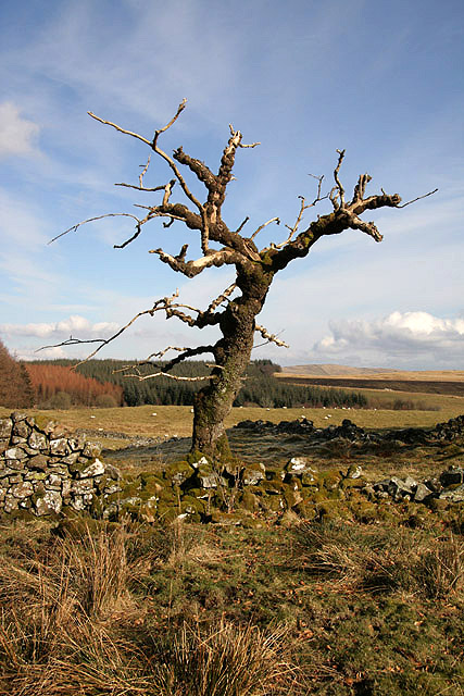 A dead elm tree on Skelston Moor. A Dutch Elm disease specimen next to a mature beech tree 1724767.